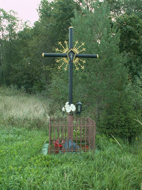 Budriai, Kretinga district, Lithuania